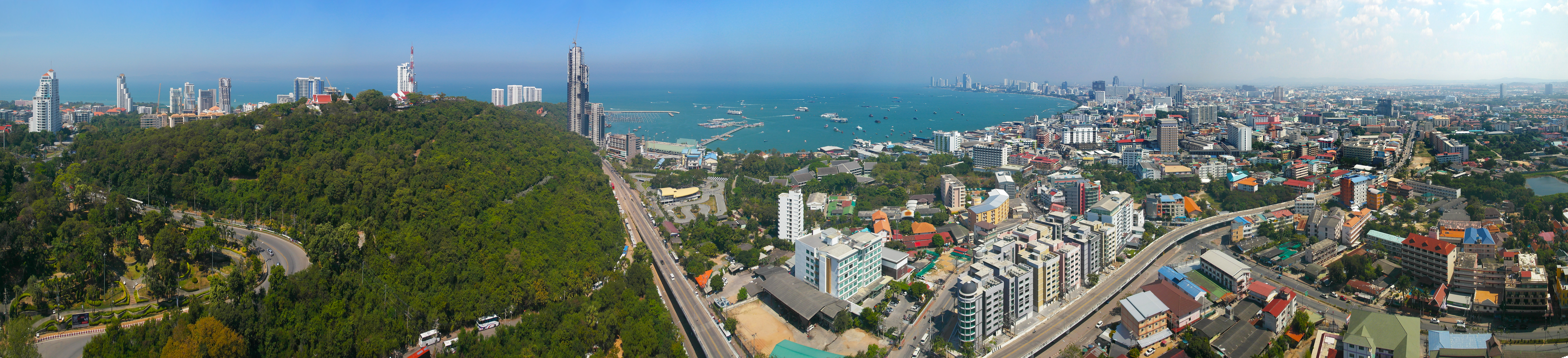 Pattaya Panorama from Unixx Condo 2017